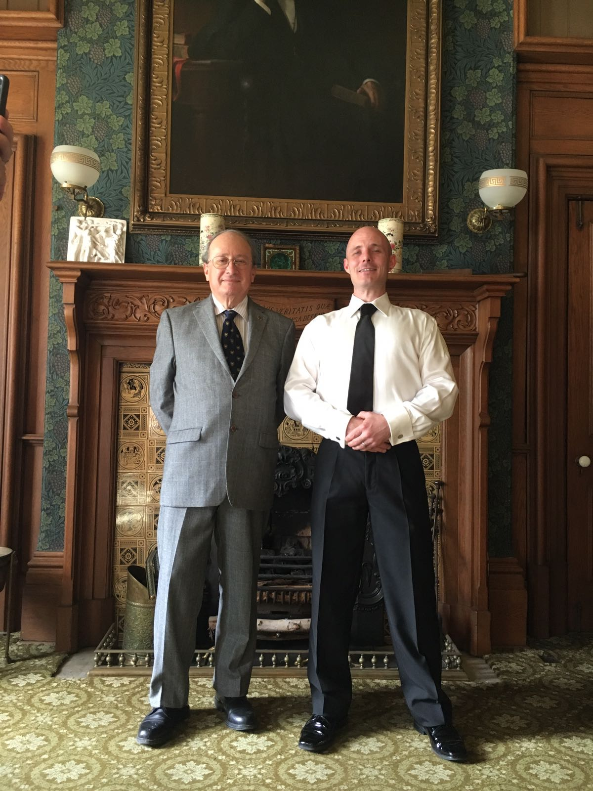 Grange Bicentennial Wedding Celebration 2017-09-29 (1817-2017)